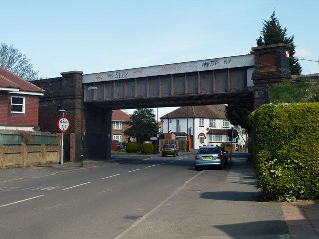 Bridge across Cannon Hill Lane, Merton, London (Railway bridge 6 SMS2), planned site of Cannon Hill station on the Wimbledon and Sutton Railway